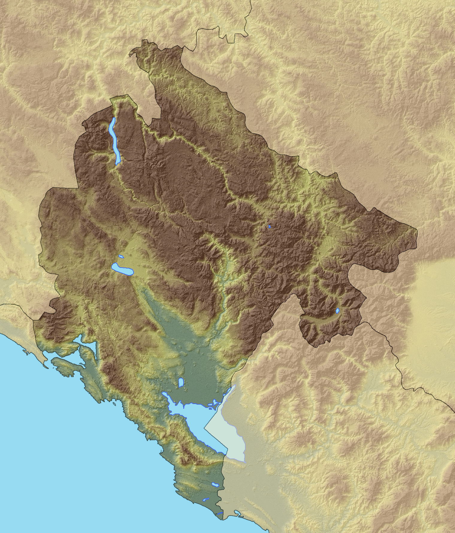 Relief map of Montenegro. World Mercator projection N: 43.7° N S: 41.8° N W: 18.3° E E: 20.5° E